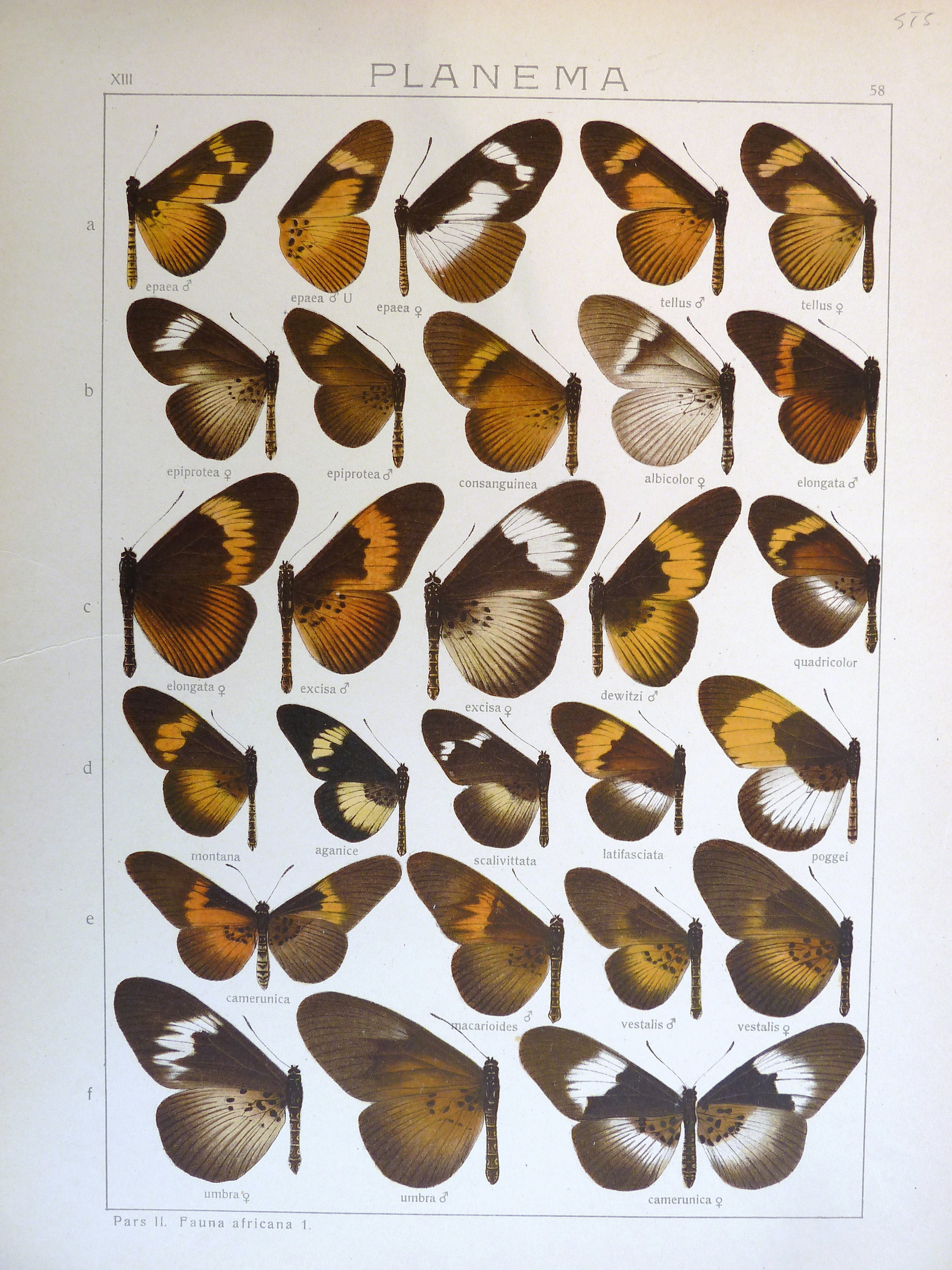 Adalbert Seitz Die Gross-Schmetterlinge der Erde 13: Die Afrikanischen Tagfalter. Plate XIII 58 Bematistes epaea (Cramer, 1779) Bematistes tellus (Aurivillius, 1893) Bematistes epiprotea (Butler, 1874) Bematistes consanguinea (Aurivillius, 1893) Bematistes consanguinea albicolor (Karsch, 1895) Bematistes elongata (Butler, 1874) Bematistes excisa (Butler, 1874) Acraea dewitzi Staudinger, 1896 synonym for Bematistes pseuderyta Godman & Salvin, 1890 Bematistes quadricolor (Rogenhöfer, 1891 Bematistes aganice montana (Butler, 1888) Bematistes aganice (Hewitson, 1852) Bematistes scalivittata (Butler, 1896) Bematistes quadricolor latifasciata (Sharpe, 1892) Bematistes poggei (Dewitz, 1879) Bematistes alcinoe camerunica (Aurivillius, 1893) Bematistes umbra macarioides (Aurivillius, 1893) Bematistes vestalis Felder & Felder, 1865 Bematistes umbra (Drury, [1782])